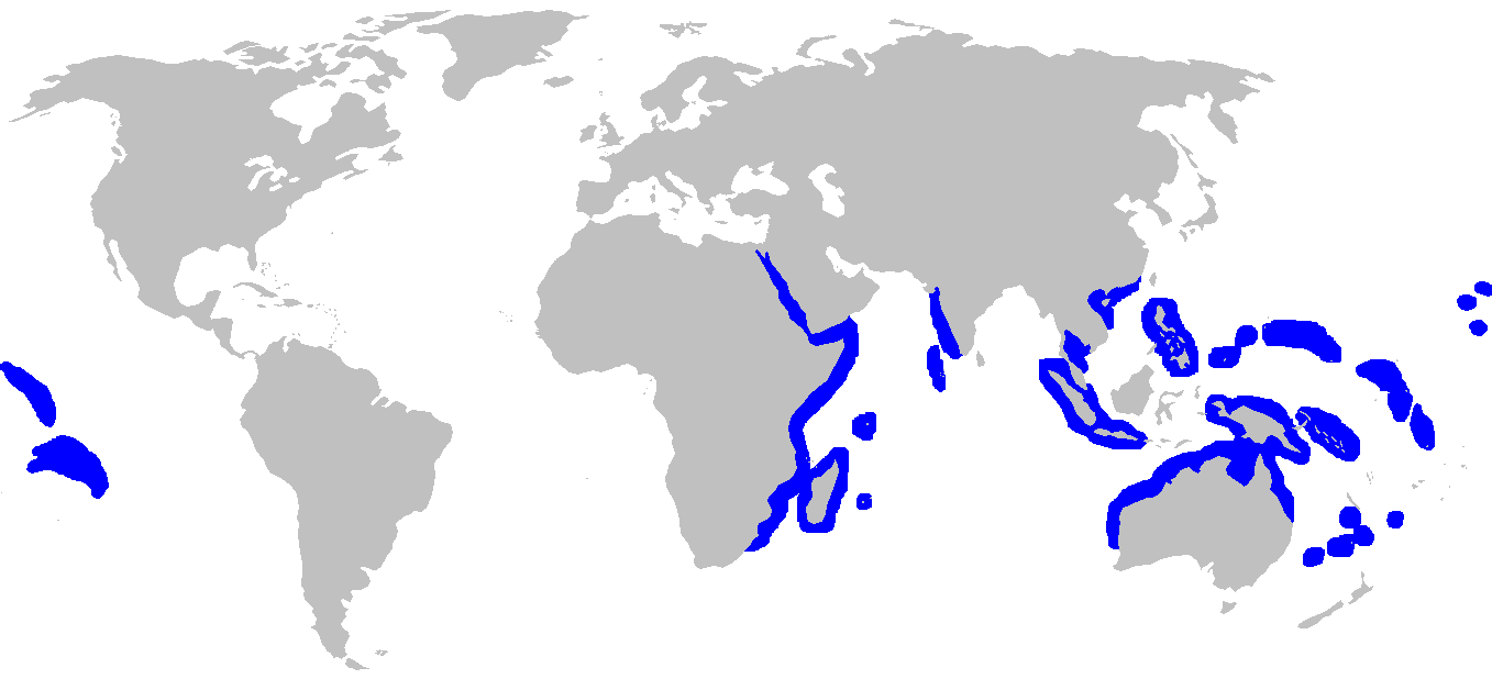 Distribution of the grey reef shark (Carcharhinus amblyrhynchos), based on Compagno, Dando, and Fowler (2005).